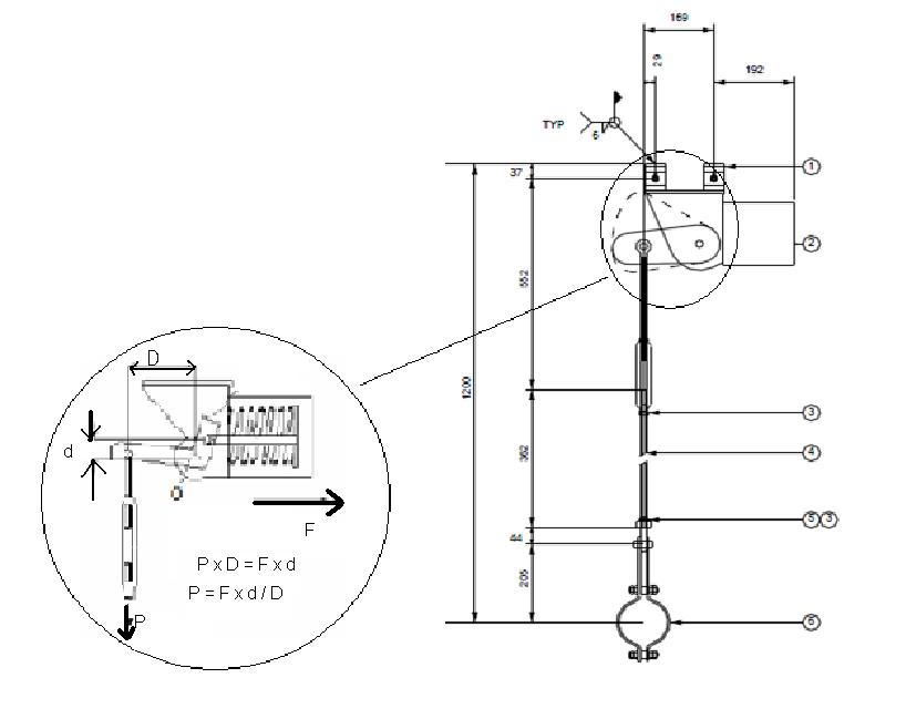 Bell crank in CSH